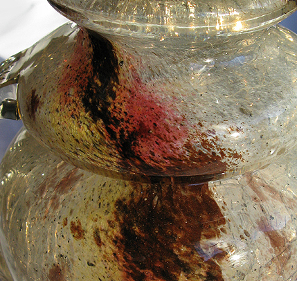 Moss Agate glass by John Northwood of Stevens & Williams glassworks, circa 1888 (detail). Private collection.